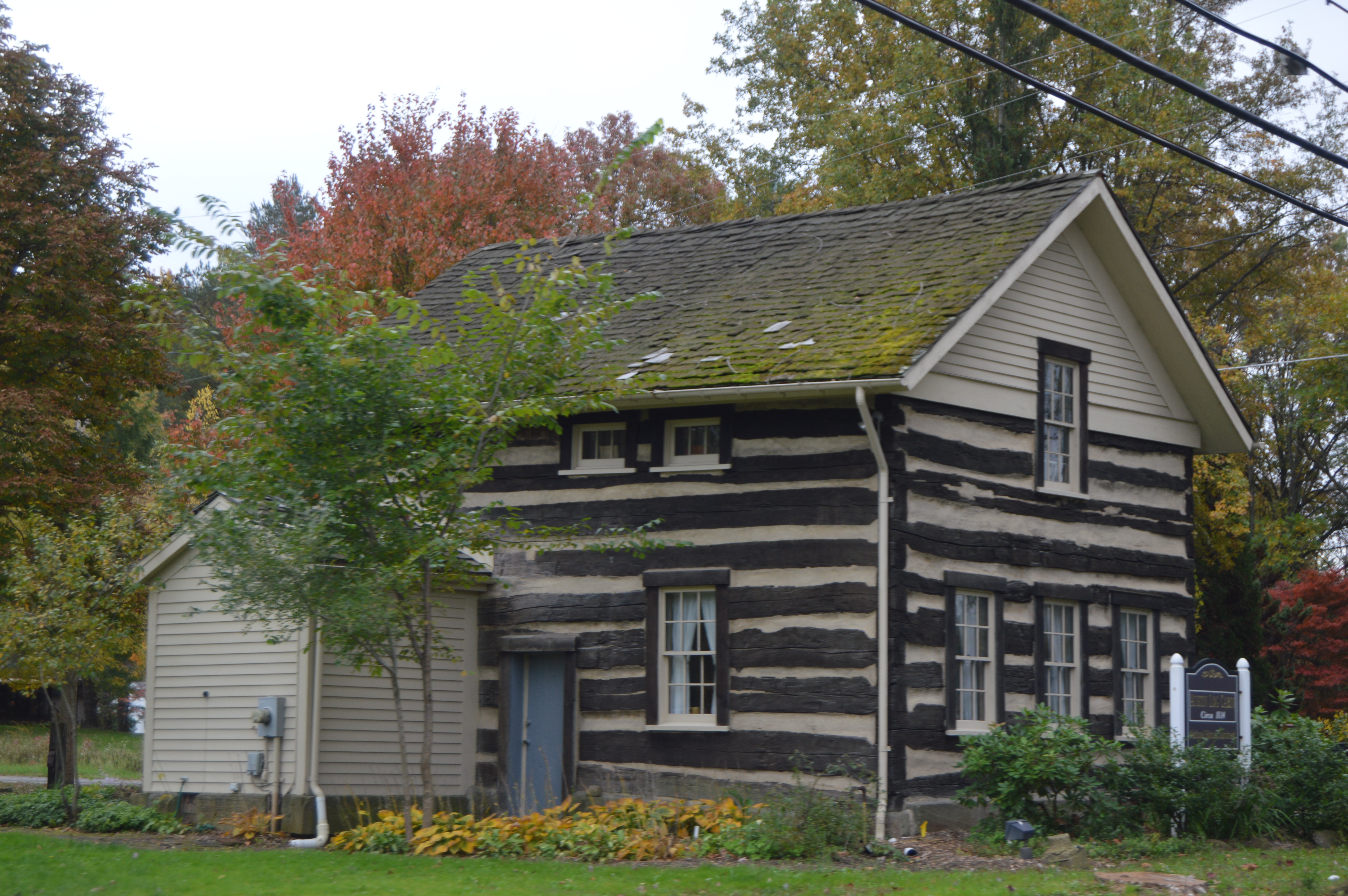 Front and northern side of the Austintown Log House, located at 7171 Mahoning Avenue in Austintown Township, Mahoning County, Ohio, United States. Built in 1814 and now a museum, it is listed on the National Register of Historic Places.